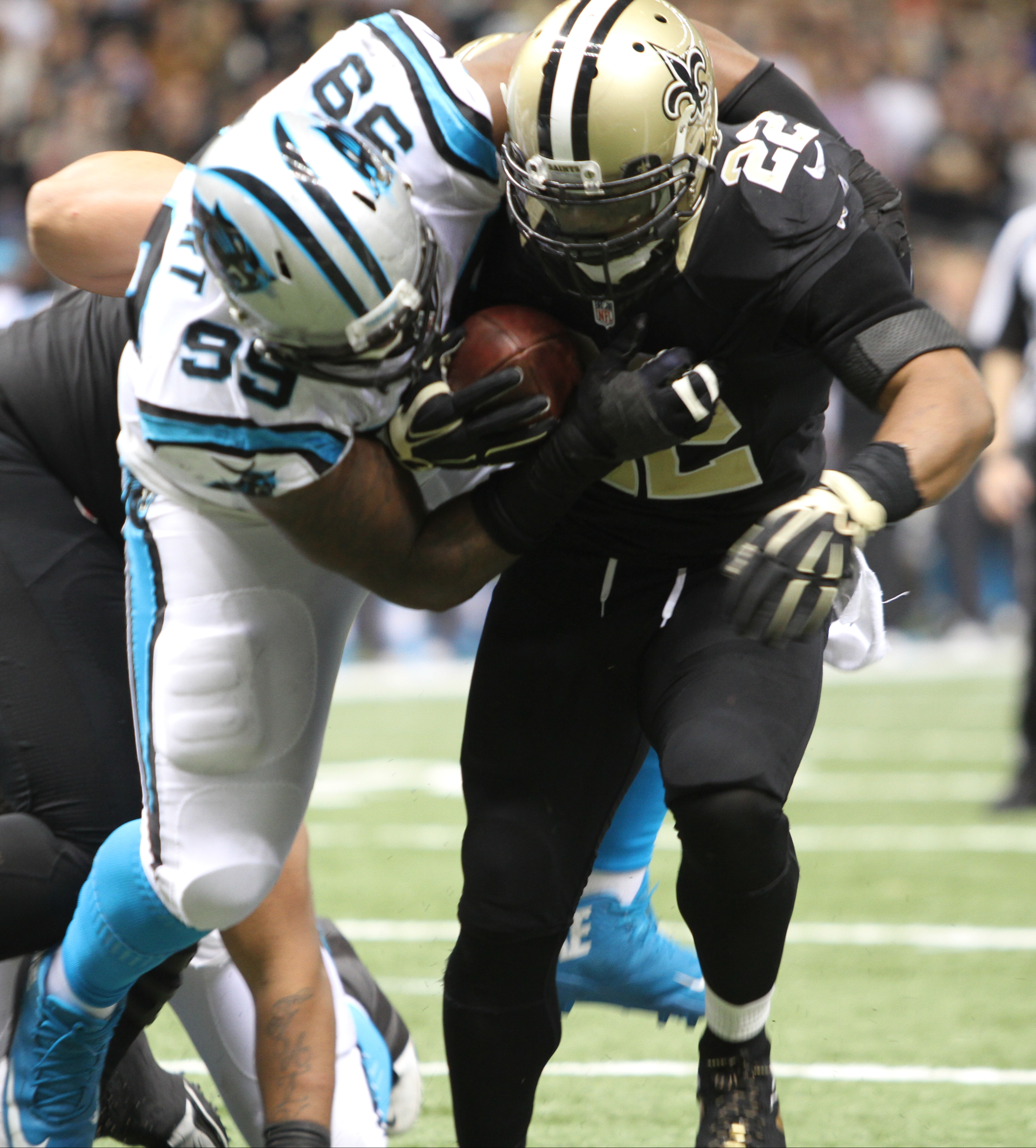 Mark Ingram, Kawann Short, New Orleans Saints vs Carolina Panthers, December 6, 2015, Tammy Anthony Baker, Photographer